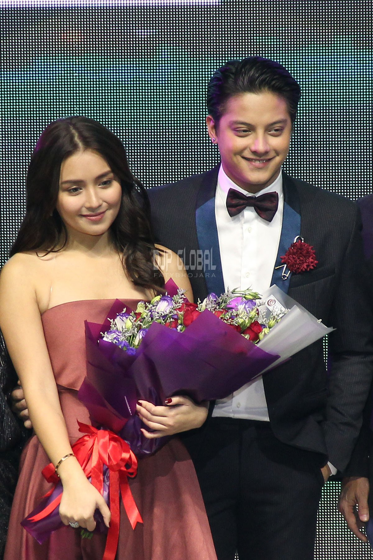 KathNiel at Celebrate Mega in Iceland 2016